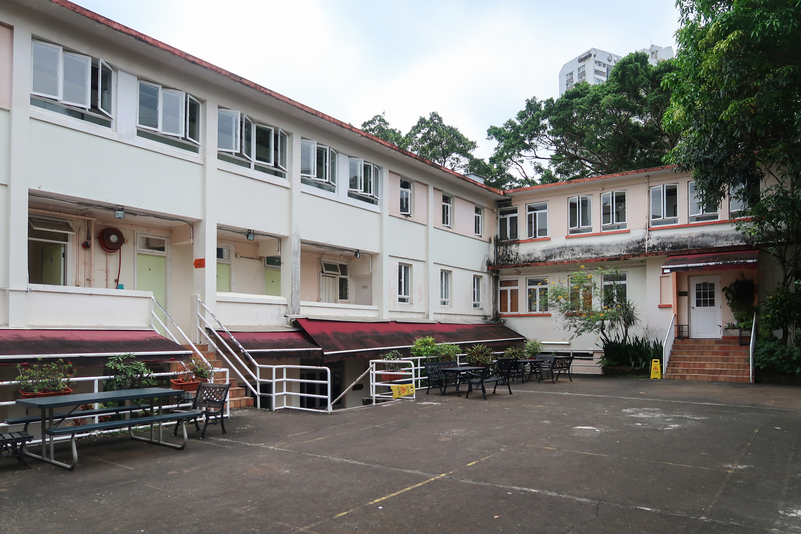 High Rock Christian Camp